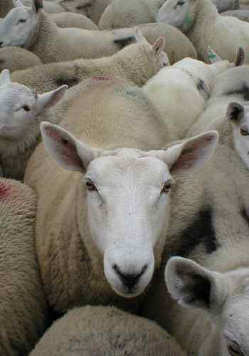 Cheviot sheep from Scotland.